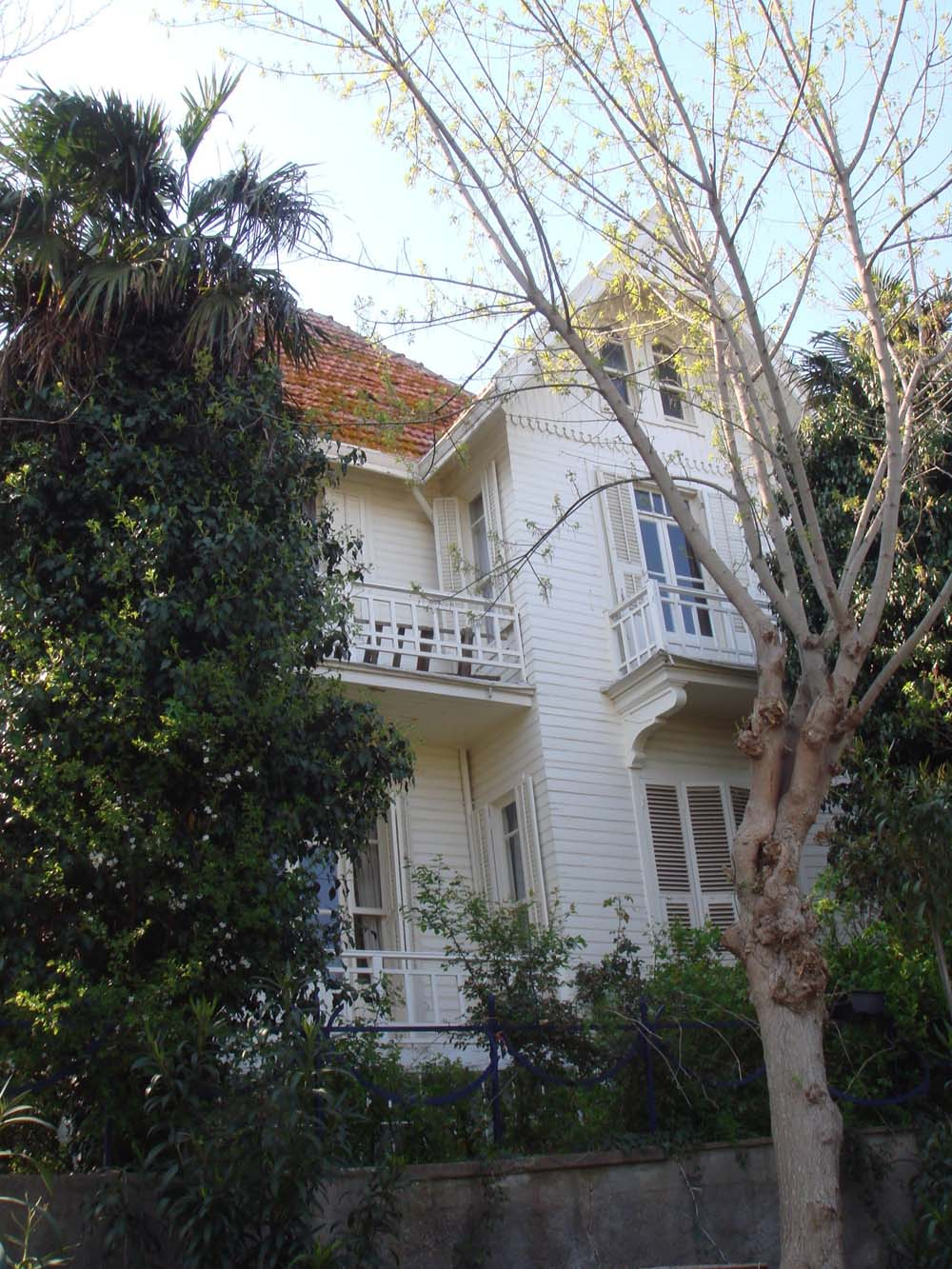 The house of Sait Faik Abasıyanık at Burgazada. It is actually Sait Faik Abasıyanık Museum now.